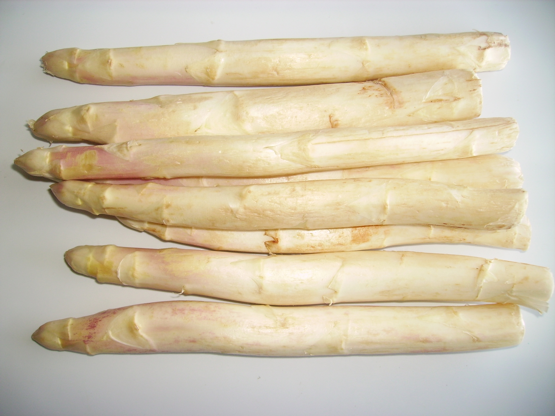 Asparagus